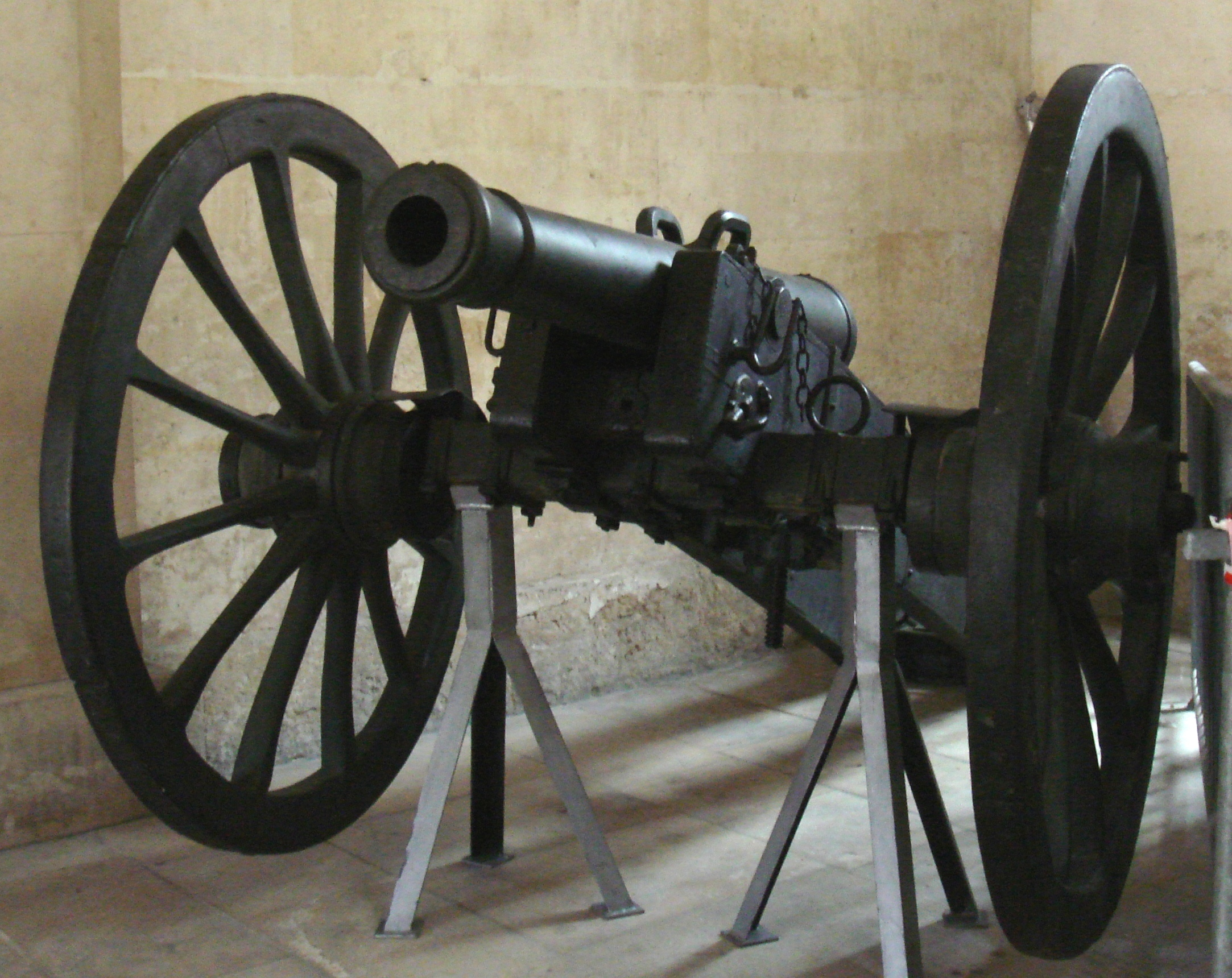 Systeme An XI_cannon_de_6_Douay_1813. Photographed by me at Les Invalides